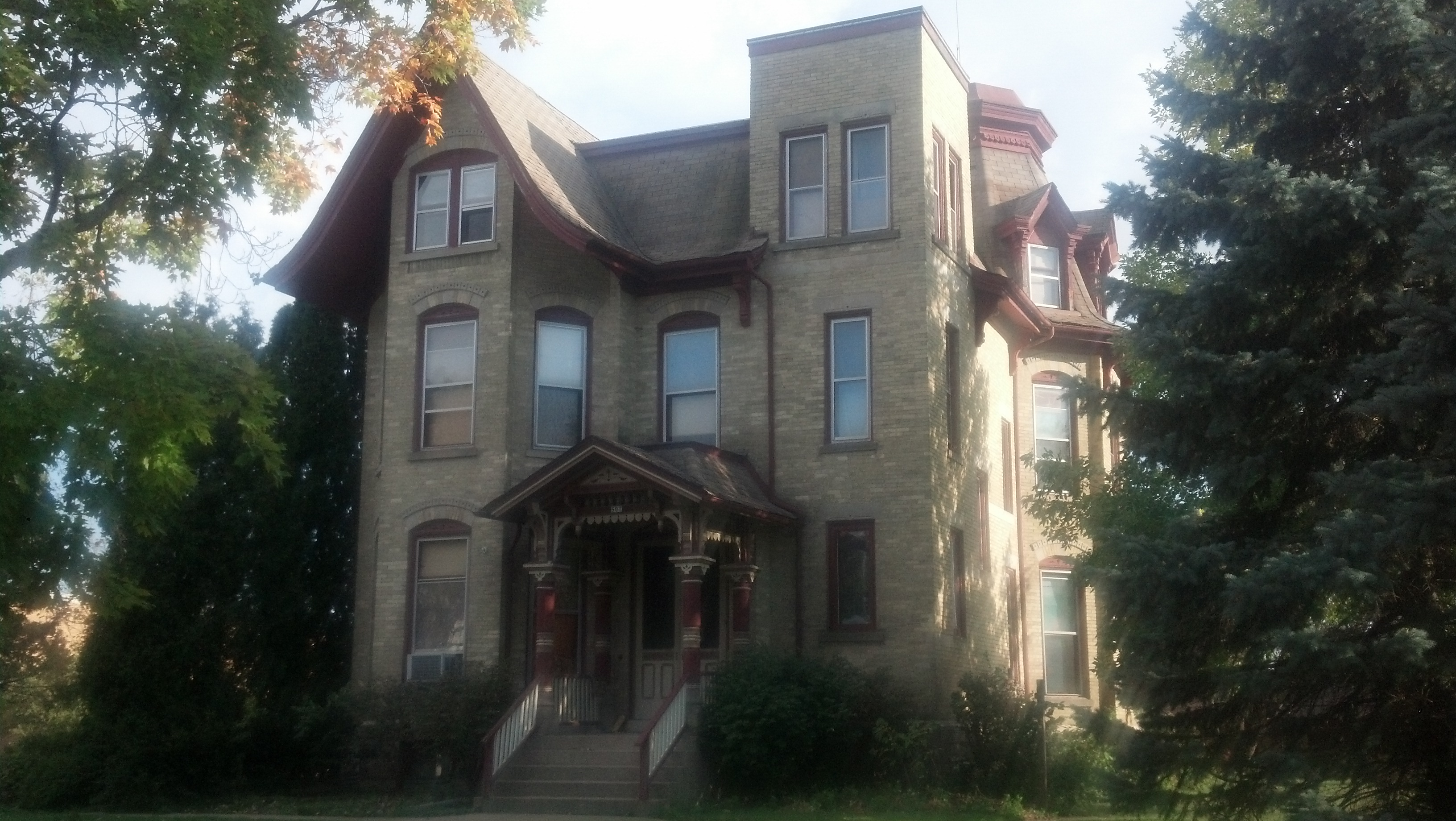 Casper M. Sanger House